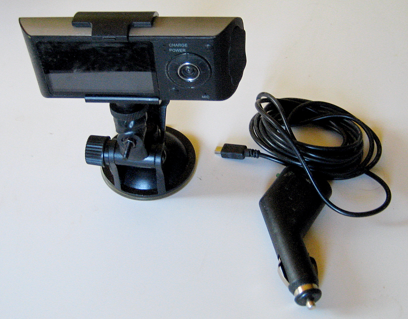 Automobile cameras